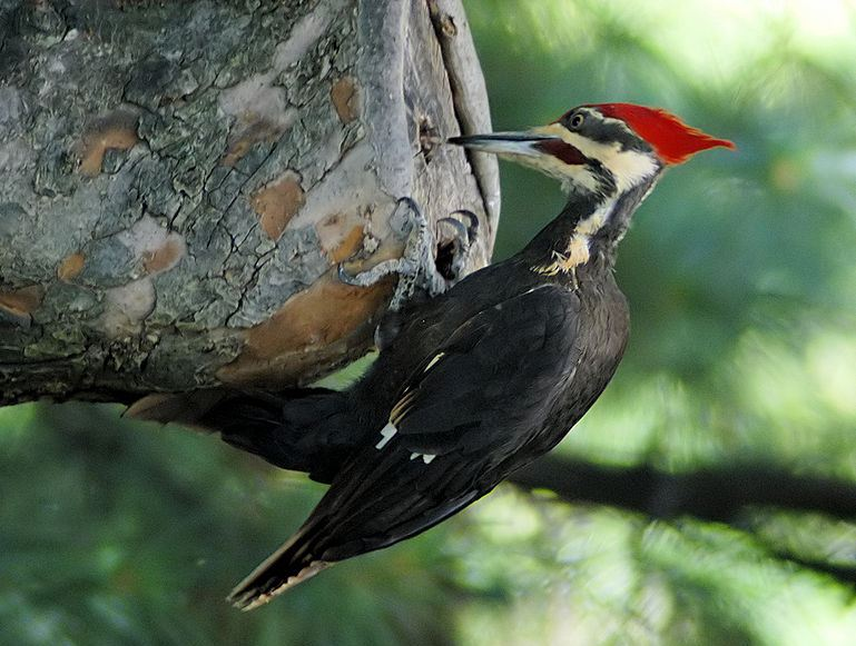 Dryocopus pileatus A Pileated Woodpecker 2004-05-29. Photo taken by user Lorax